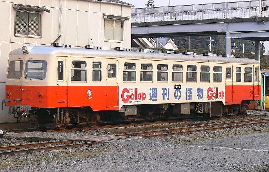 Kashima Railway type 714(Japan). It takes a picture from the platform in the Ishioka vehicle base premises.